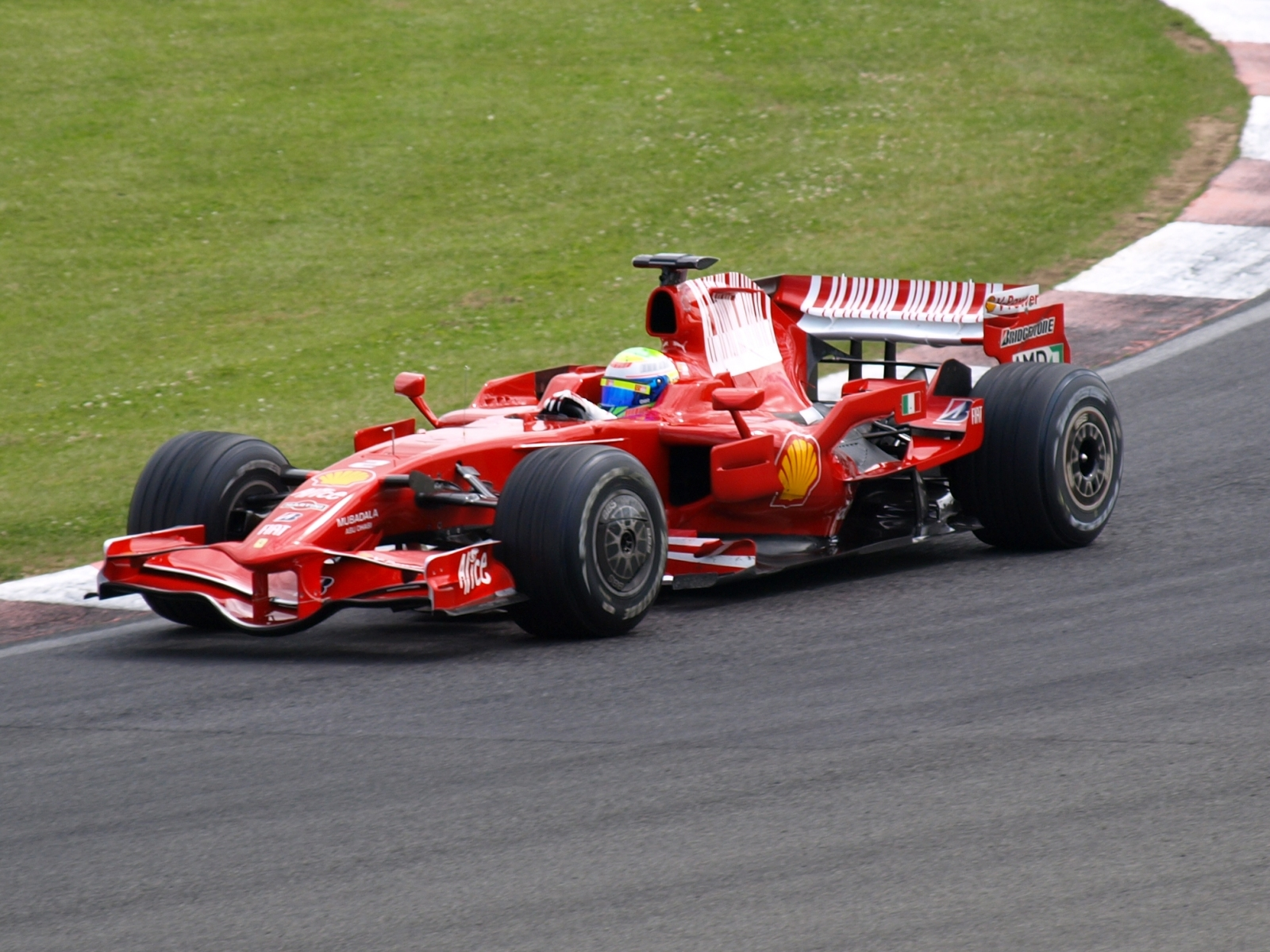 Felipe Massa testing for Scuderia Ferrari at Silverstone Circuit in June 2008.